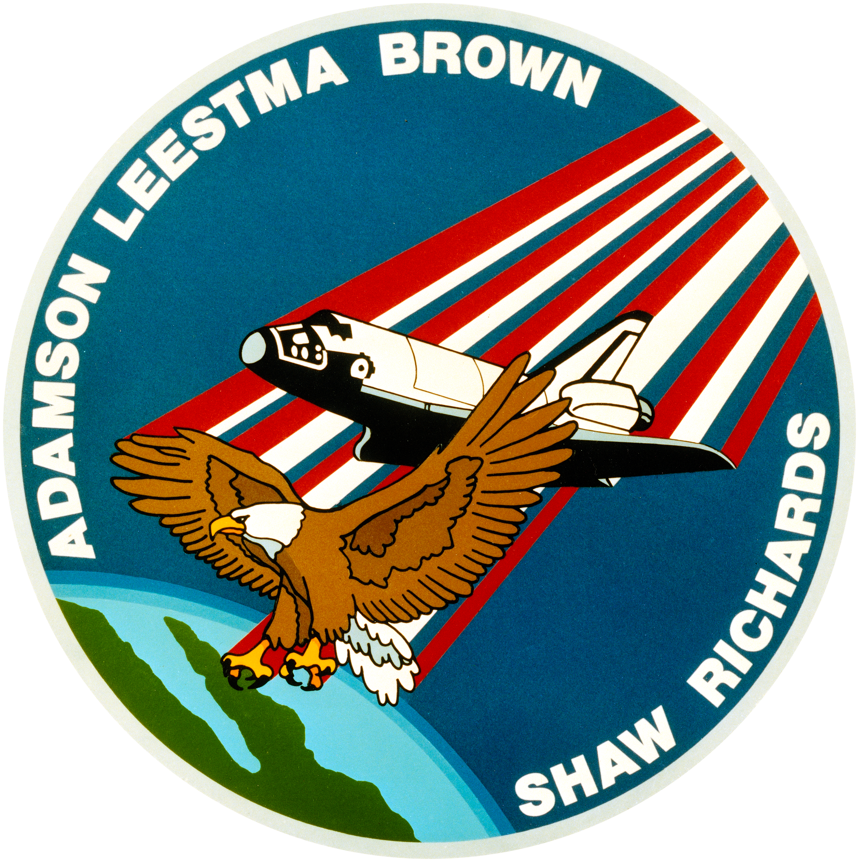 STS-28 mission patch The STS-28 insignia was designed by the astronaut crew, who said it portrays the pride the American people have in their manned spaceflight program. It depicts America (the eagle) guiding the space program (the Space Shuttle) safely home from an orbital mission. The view looks south on Baja California and the west coast of the United States as the space travelers re-enter the atmosphere. The hypersonic contrails created by the eagle and Shuttle represent the American flag. The crew called the simple boldness of the design symbolic of America's unfaltering commitment to leadership in the exploration and development of space.